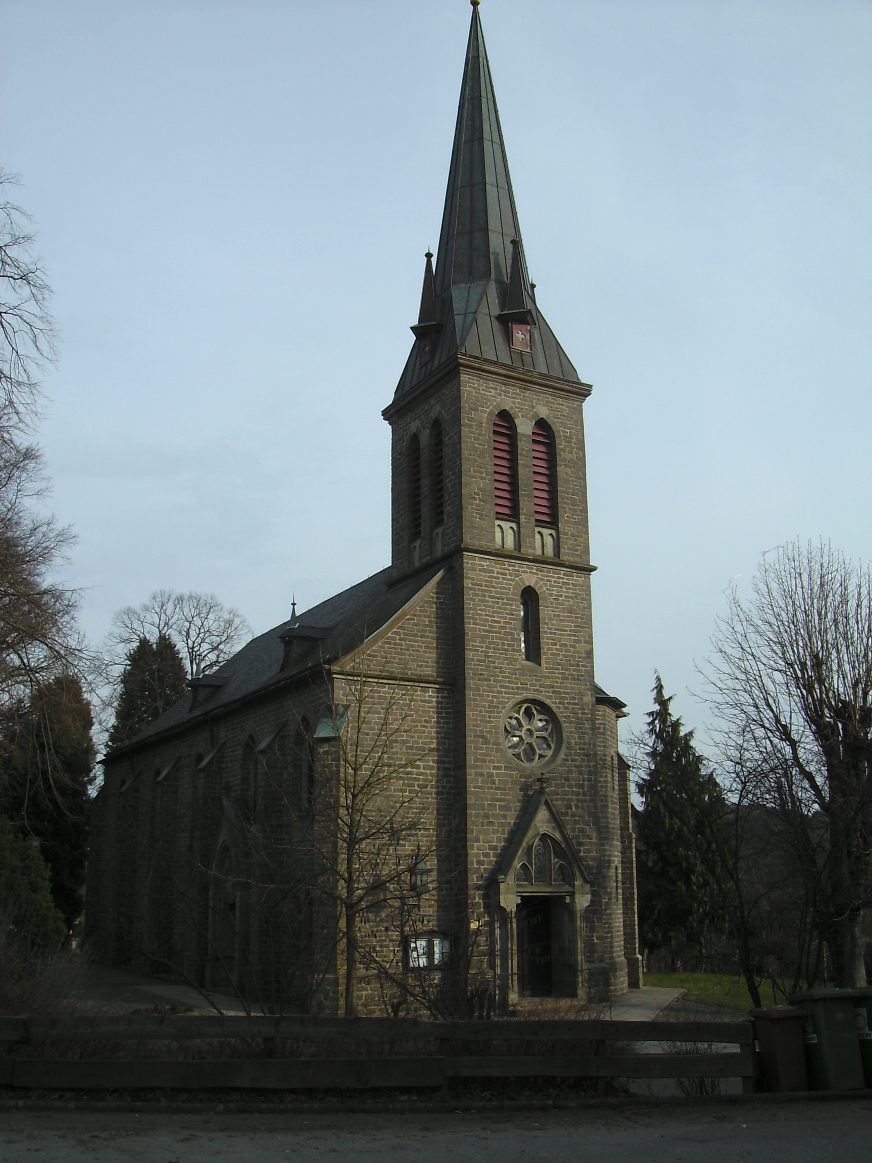 Church in Linde, Lindlar, Germany.